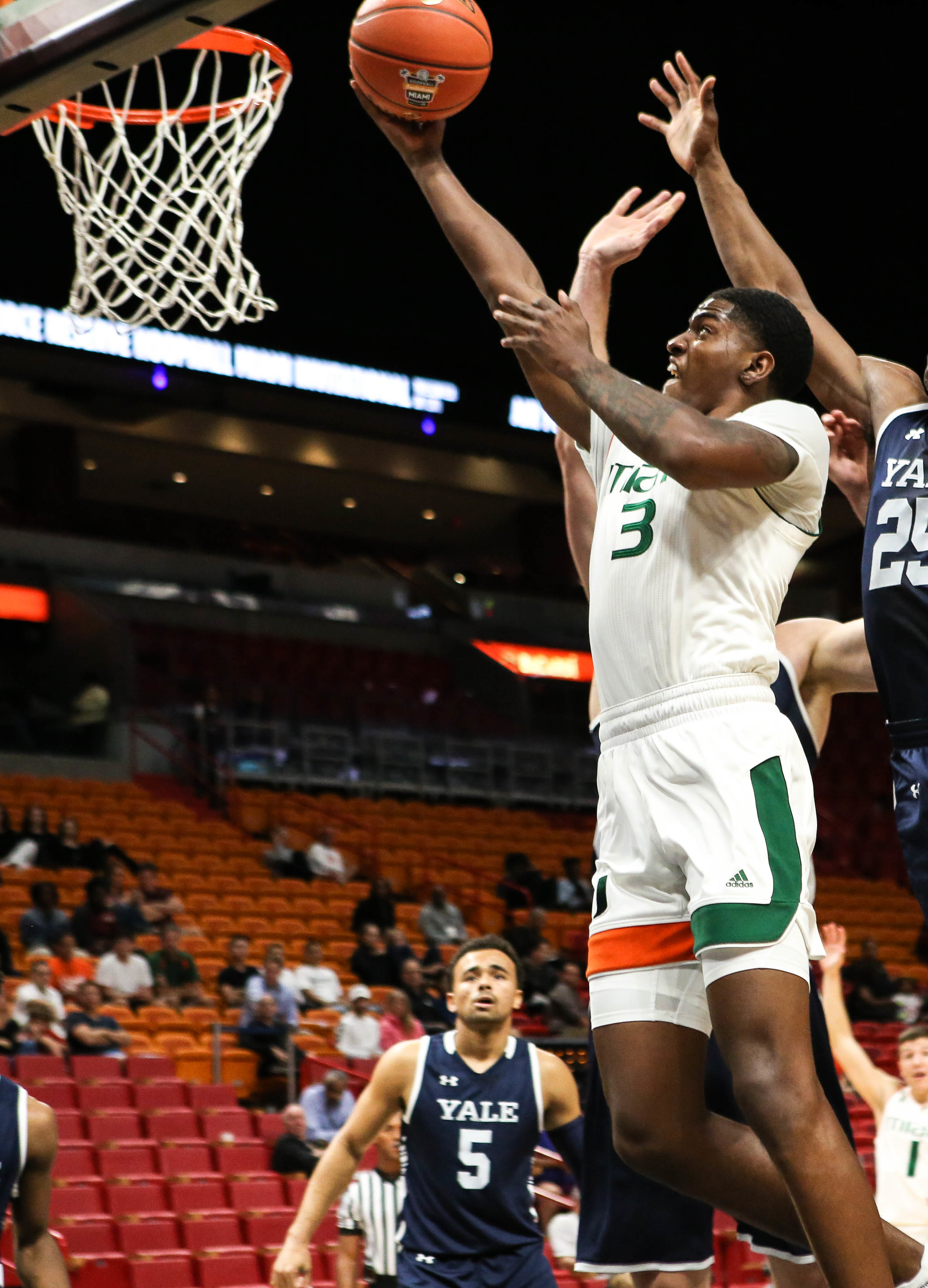 Miami vs. Yale Men's Basketball :: Naismith Basketball Hall of Fame Air Force Reserve Hoophall Miami Invitational 2018 Presented by Citi :: Keenan Hairston Photographer (# 3 Anthony Lawrence II)